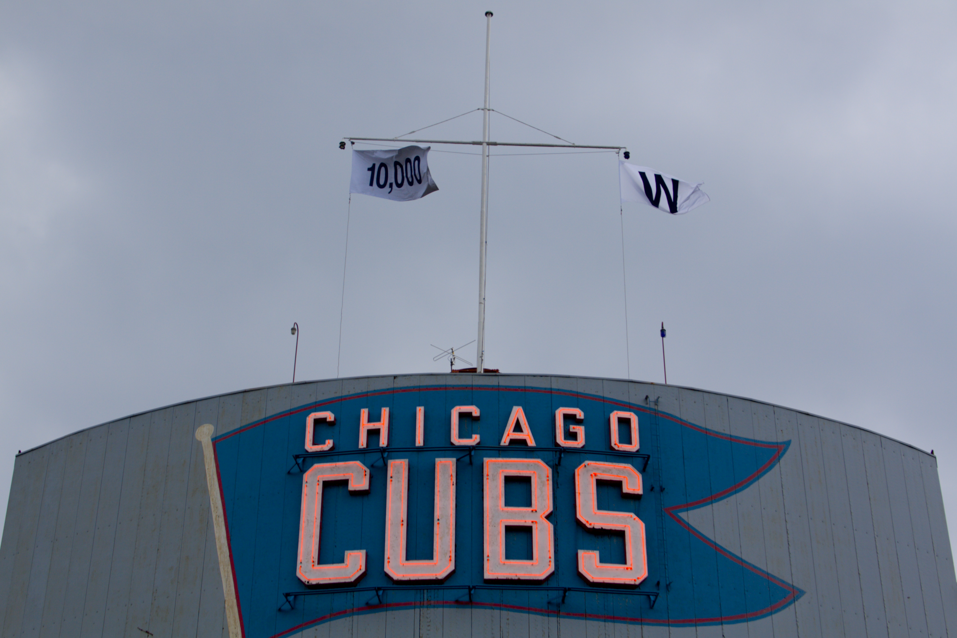 Description The Cubs' 10,000th Win Commemoration Above Wrigley Field's Bleachers Date24 April 2008SourceOwn workAuthorRMelon (talk)Other versions This file has an extracted image: File:10,000 Commemoration (cropped).jpg. 23:14, 24 April 2008 . . RMelon . . 3,827×2,551 (4.2 MB) The Cubs' 10,000th Win Commemoration Above Wrigley Field's Bleachers